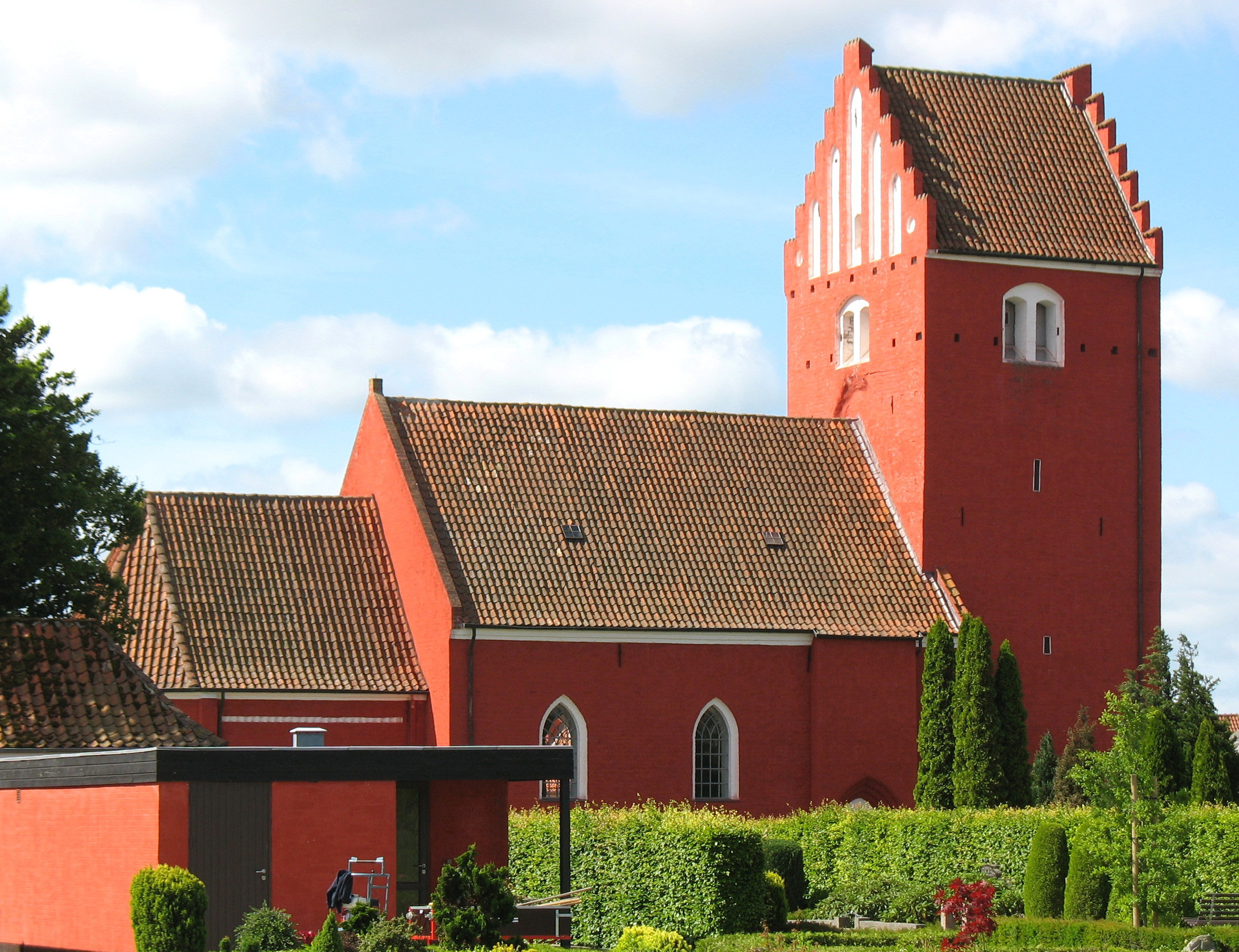 The church "Nørre Alslev Kirke" in the small town "Nørre Alslev". The town is located on the island Falster in east Denmark.